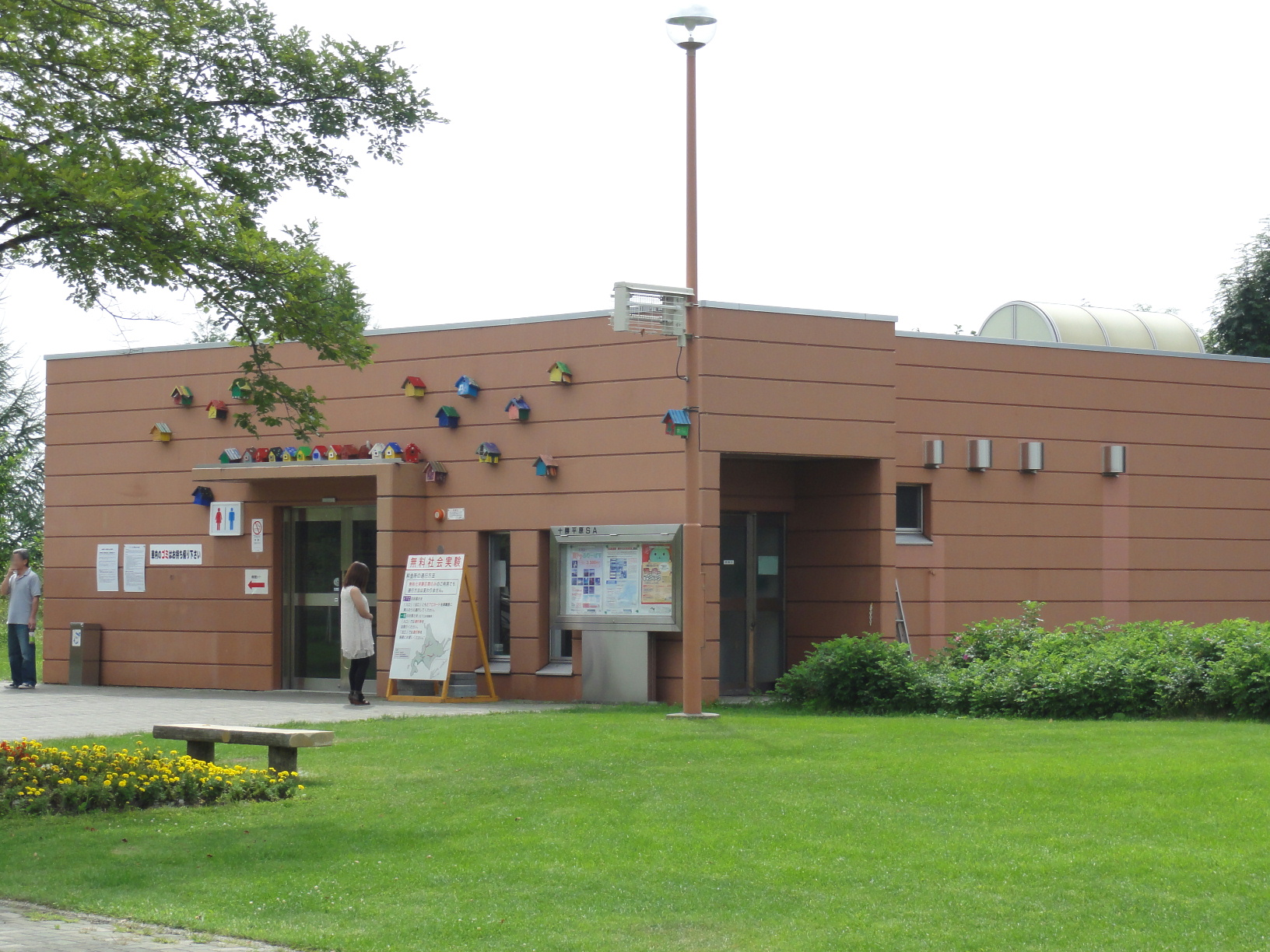 Dōtō Expressway Tokachiheigen Service Area